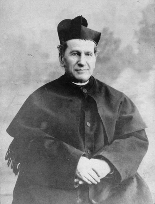 San Giovanni Bosco, italian saint